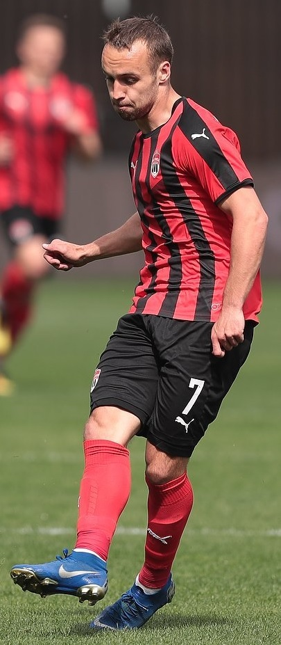 Mikhail Petrusyov with FC Khimki in a game against FC Luch Vladivostok.